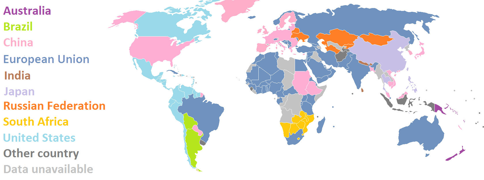 Identified economies which are the largest source of imports for country/economy denoted on map. Derived from WTO online data, public access 2010.